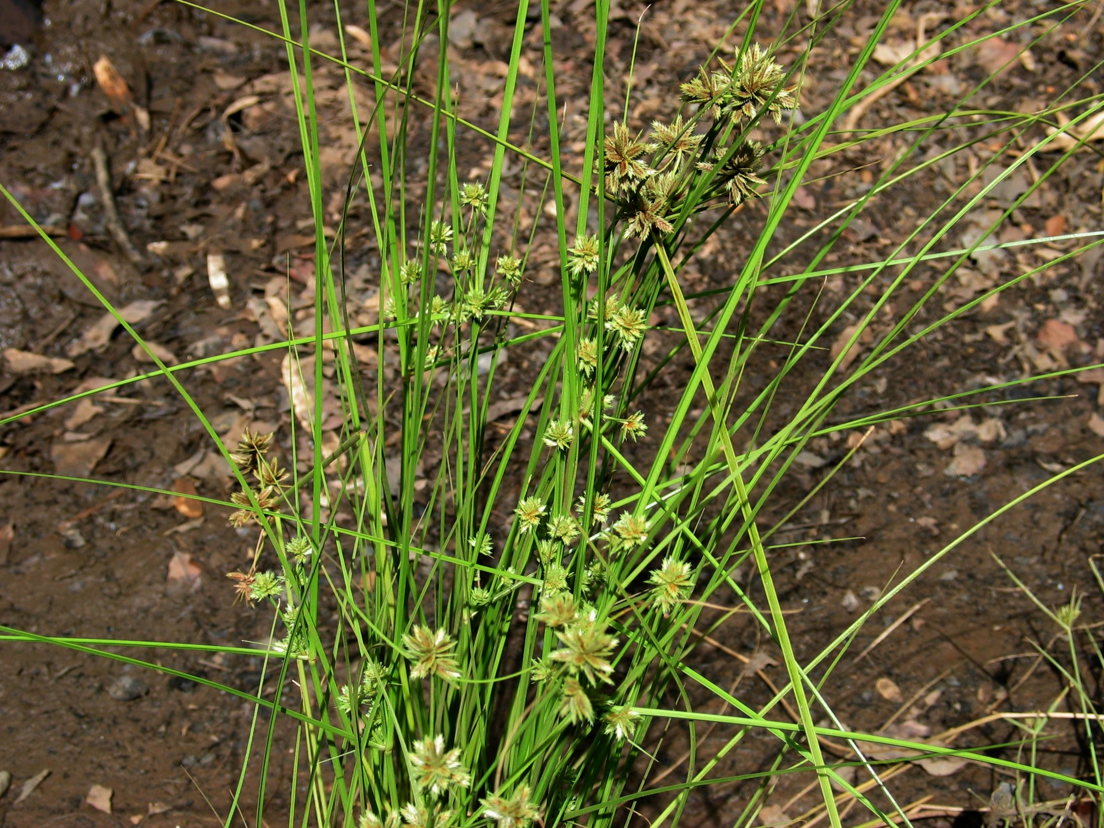 Puʻukaʻa or Sticky flatsedge Cyperaceae Endemic to the Hawaiian Islands Endangered Lower Kamananui Stream, Waimea Valley, Oʻahu (probably an escapee from the upper man-made ponds where it is planted)